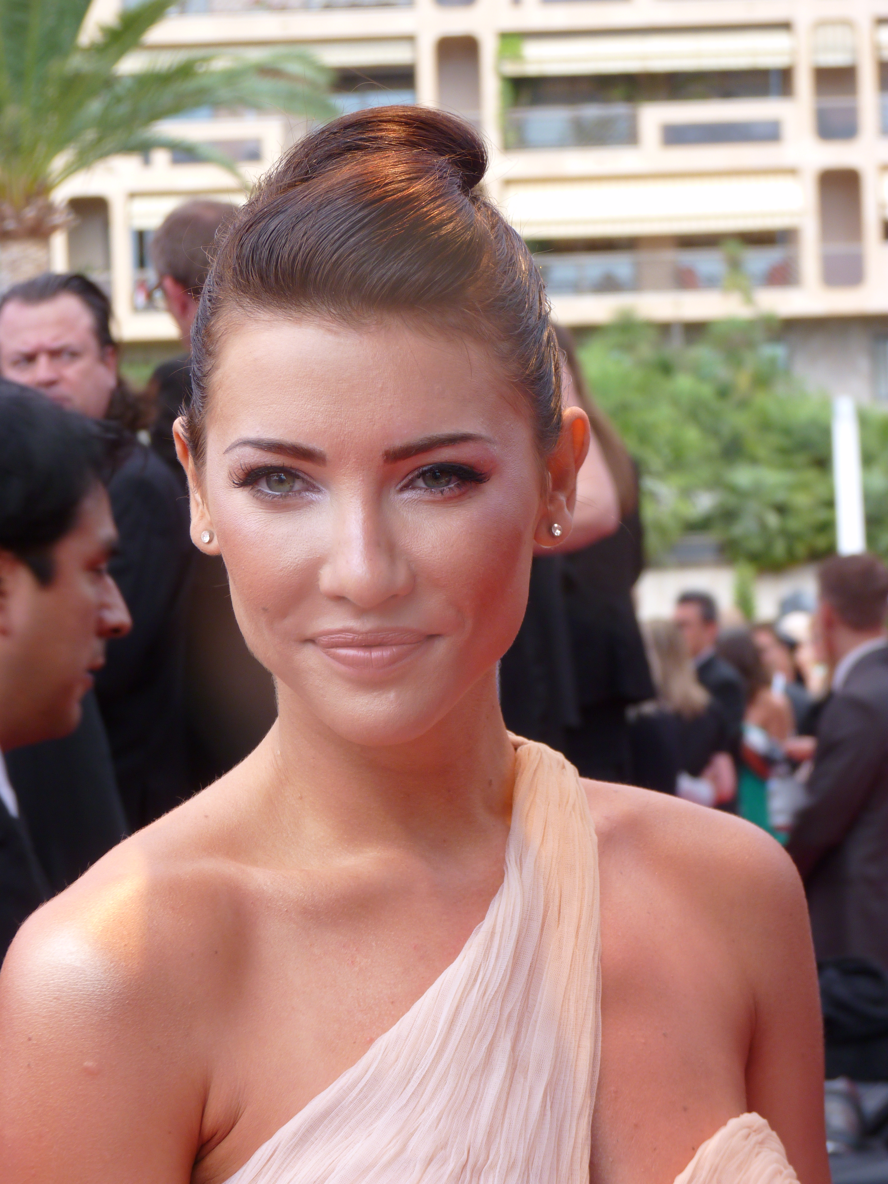 Jacqueline MacInnes Wood at the 2012 Monte-Carlo Television Festival.